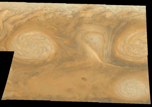 These are a number of white ovals on Jupiter taken by the Galileo orbiter in 1997.